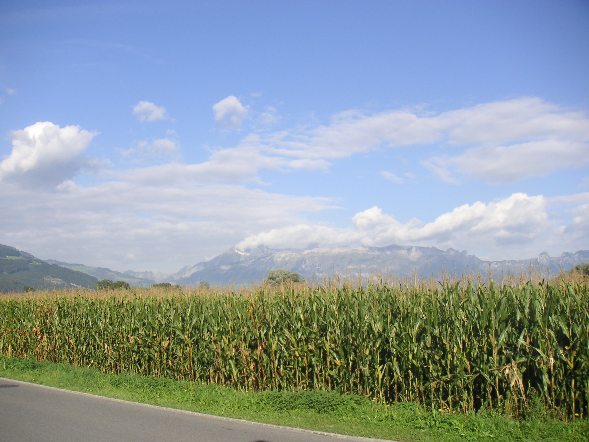 A corn field in Liechtenstein. Keywords: Field, corn, Liechtenstein, Mountains, Alps, Vaduz, sky, clouds, landscape.